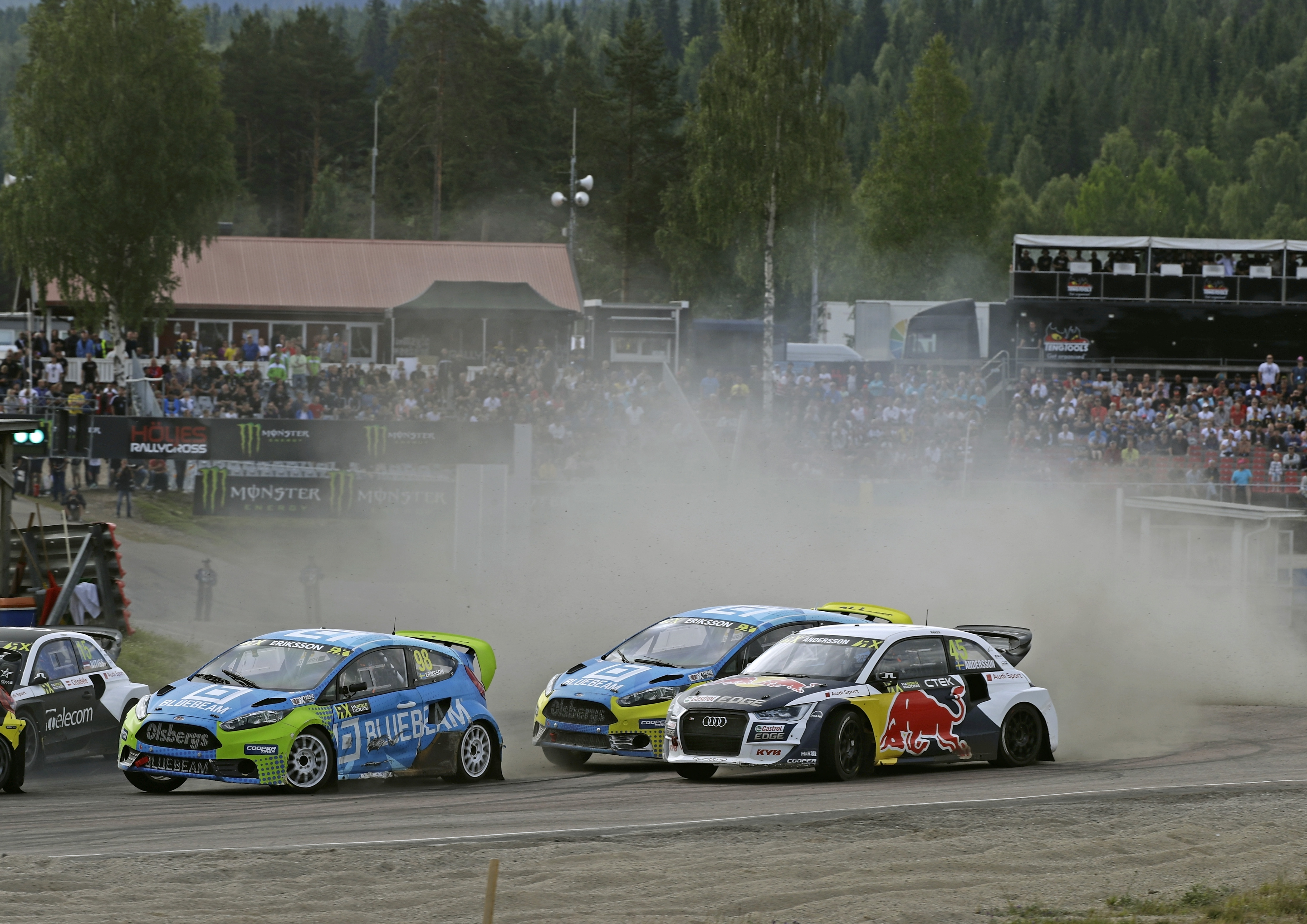 2017 FIA World Rallycross Championship // Round 07, Höljes // Credit: EKS/Bodo Kräling